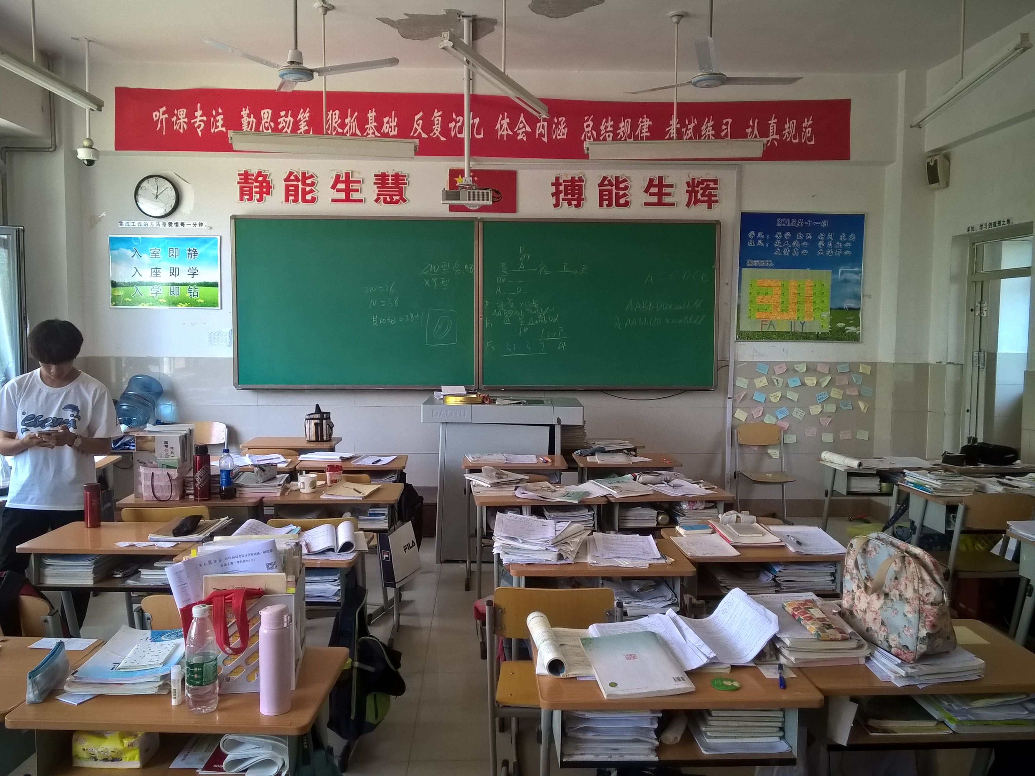 The arrangement of students and teacher can be seen in this picture. The students designed those bannners on the wall per the school's requirements. The banners were filled with encourging words and their ambitions.